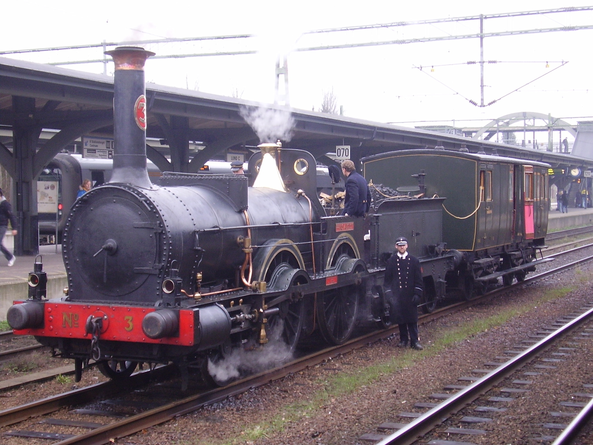 One of the first Steam Engines in Sweden, Prins August, built by Beyer & Peacock 1856, in Lund Central Station at the Swedish 150 year celebration 1st dec 2006.